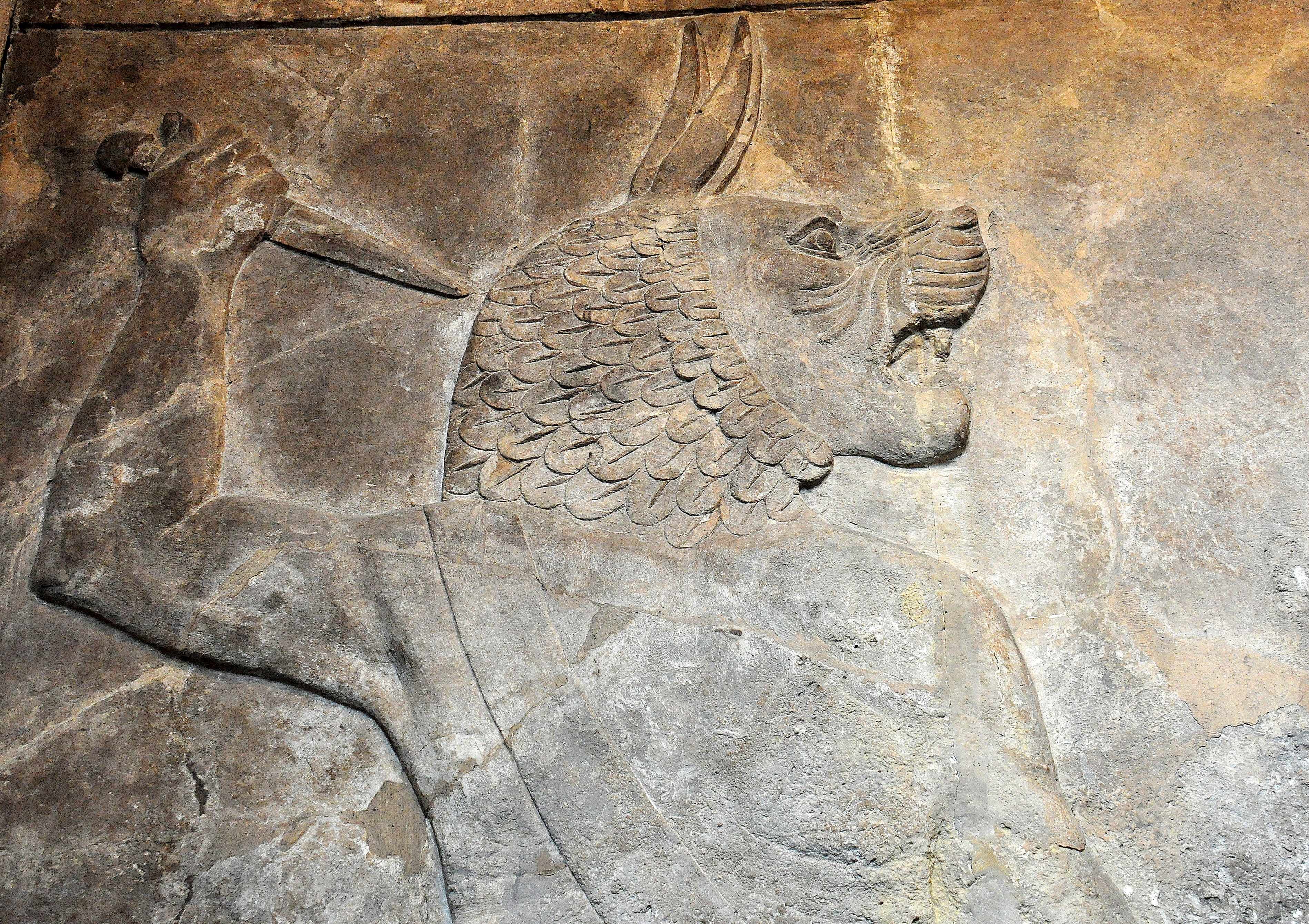 A close-up view of a lion-headed man who has eagle's feet; Uglallu. His right arm is raised and hold a dagger. Wall relief from the South-West Palace at Nineveh, modern-day Ninawa Governorate, Iraq (Mesopotamia). Neo-Assyrian period, 700-692 BCE. The British Museum, London.